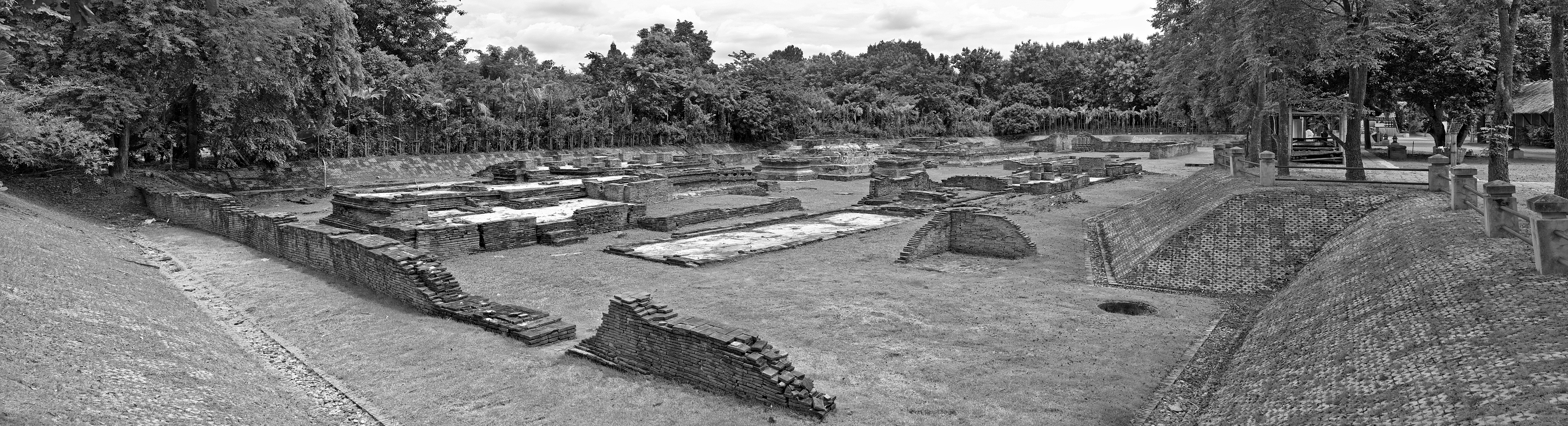 Panoramic view of the ruins of Wat Nanchang, a 16th-17th century temple in the Wiang Kum Kam archaeological area near Chiang Mai in northern Thailand.